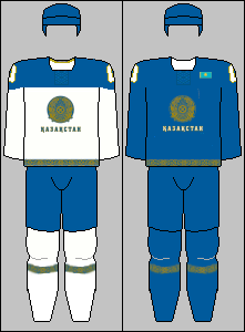 The jerseys of the Kazakh national ice hockey team used from the 2014 IIHF World Championship.